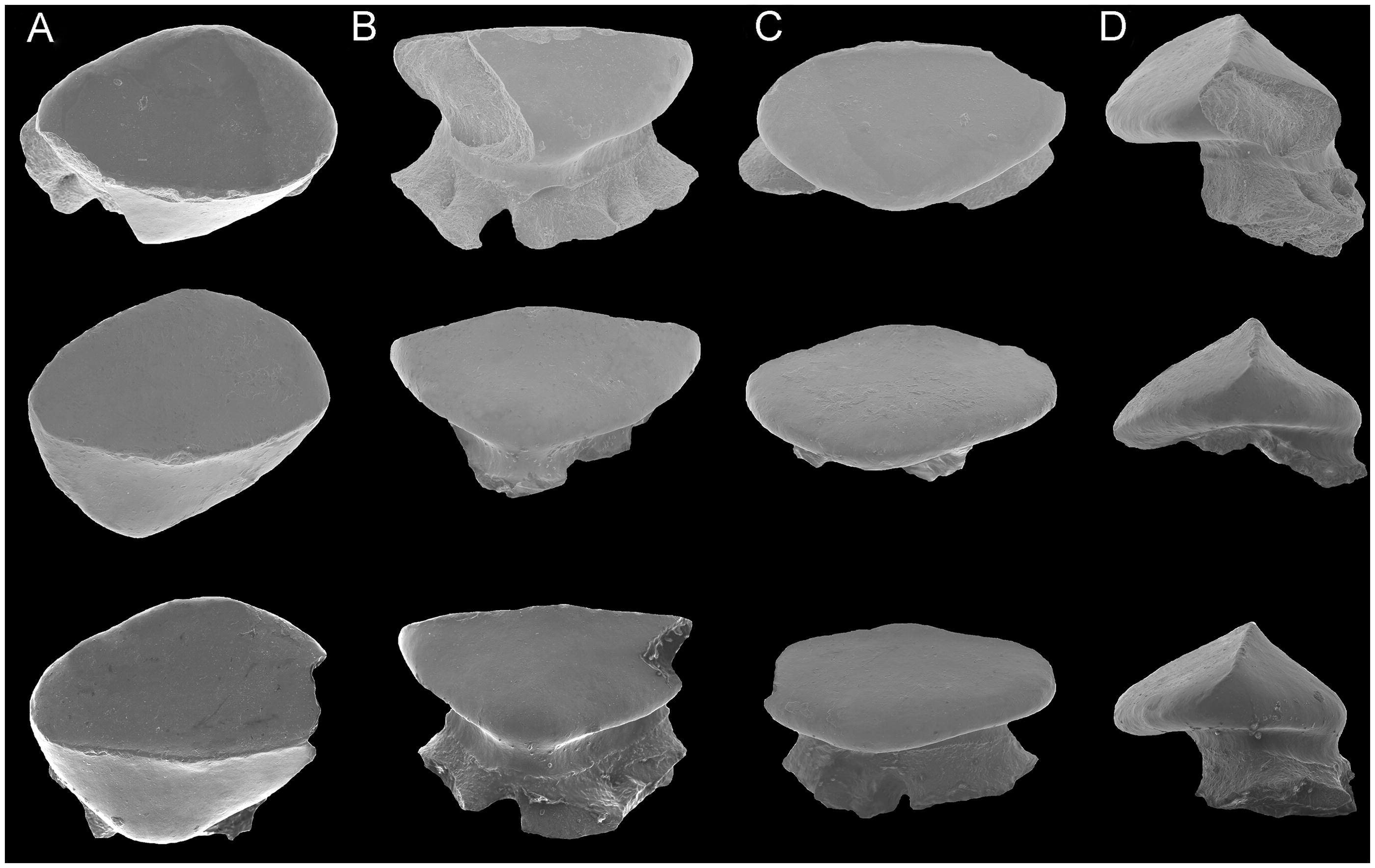 Figure 7 Ostarriraja parva gen. et sp. nov. from the early Miocene of Upper Austria. Three isolated teeth from the holotype NHMW 2005z0283/0097 in A, occlusal; B, lingual; C, labial; and D, lateral view. Scale bar: 200 μm.